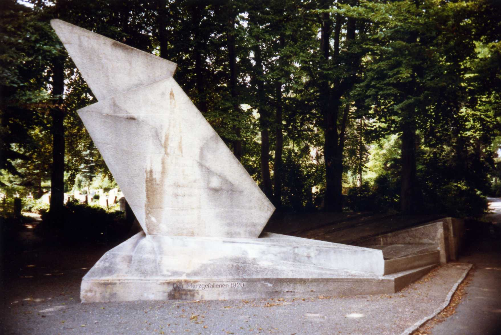 Denkmal der Maerzgefallenen. An important pieces of abstract sculpture of the 20th century. Located at the Historische Friedhof in Weimar, destroyed by the Nazis in 1936 and recreated after 1945. The inscription at the base reads den Maerzgefallenen 1920, to the March dead of 1920, referring to those workers killed in the [#//en.wikipedia.org/wiki/Kapp_Putsch Kapp putsch] in the turmoil in Germany in the aftermath of World War I , a coup attempt to overthrow the so-called Weimar Republic for it was here in Weimar that the assembly met to forge the constitution of the new liberal democracy. The Kapp putsch occurred in Berlin on 13 March 1920, and installed Wolfgang Kapp as Chancellor, but the uprising only lasted 4 days. The memorial was commissioned by the Weimar Gewerkschaftskartell which might be translated as the local trades council.